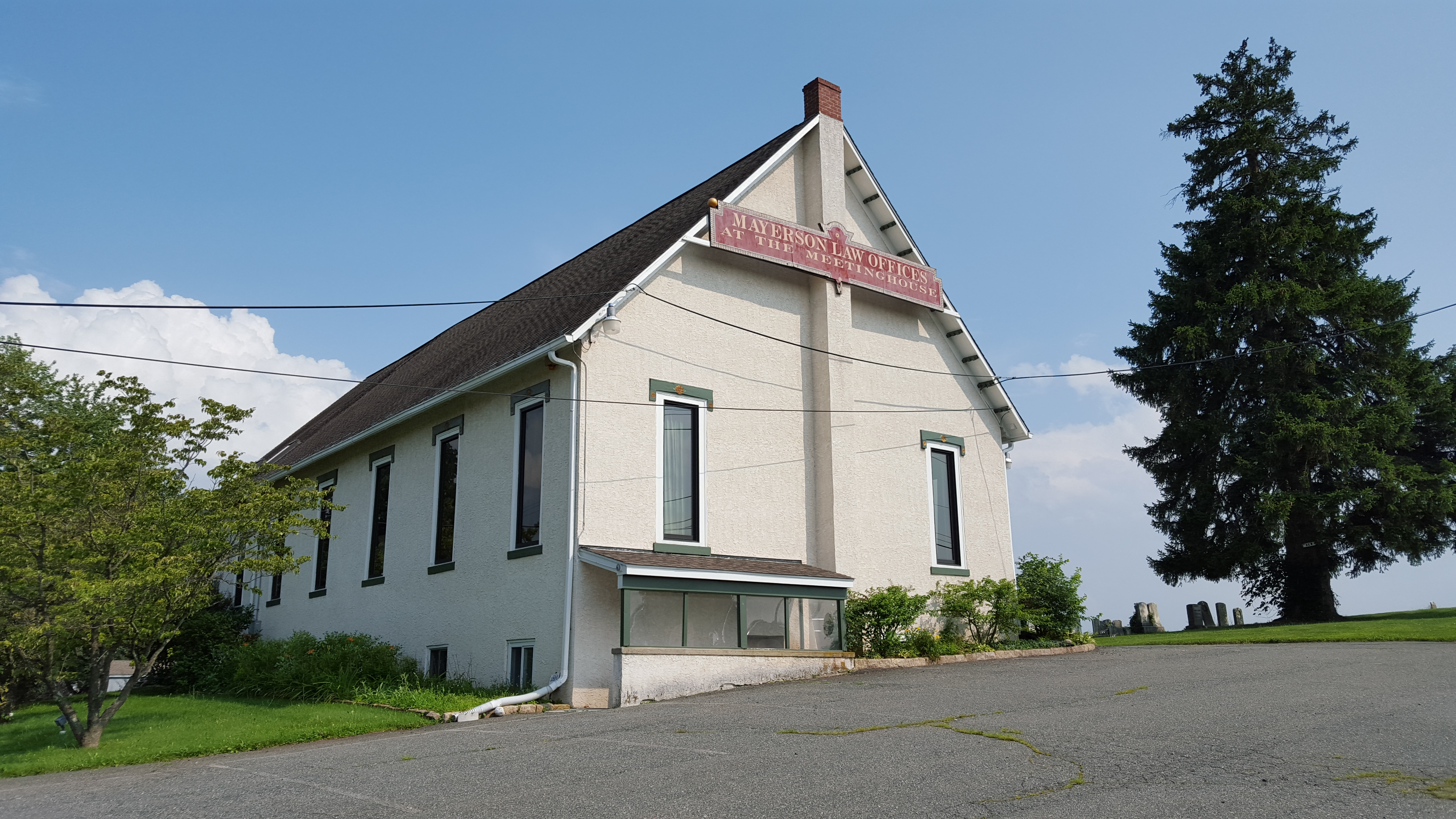 The Meetinghouse